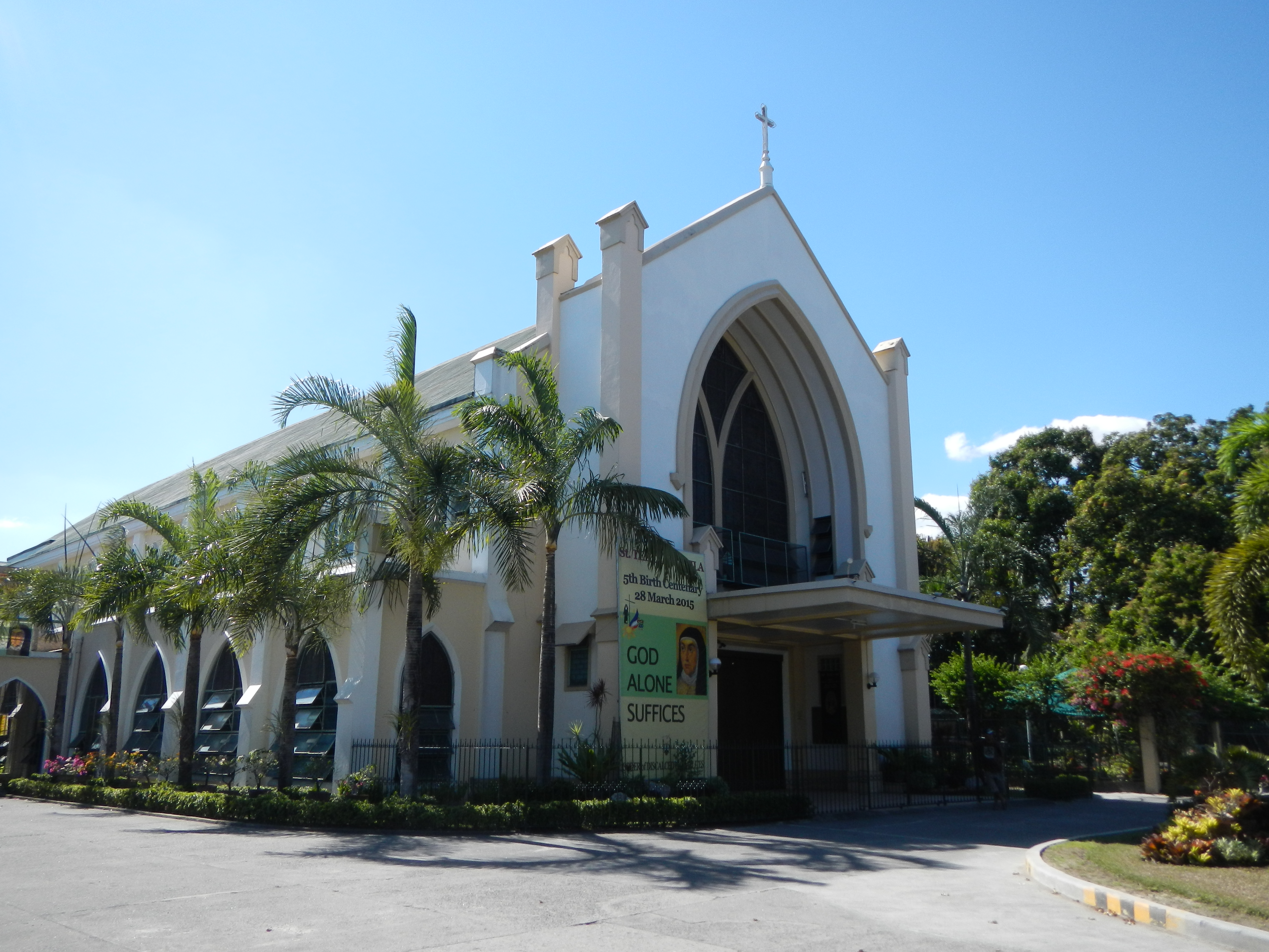 Photos of MacArthur Highway in the Welcome Arch of Angeles, Philippines Angeles City, Pampanga separating it from San Fernando, Pampanga, Chevalier School, Angeles Hospital, and Carmelite Monastery and Church.